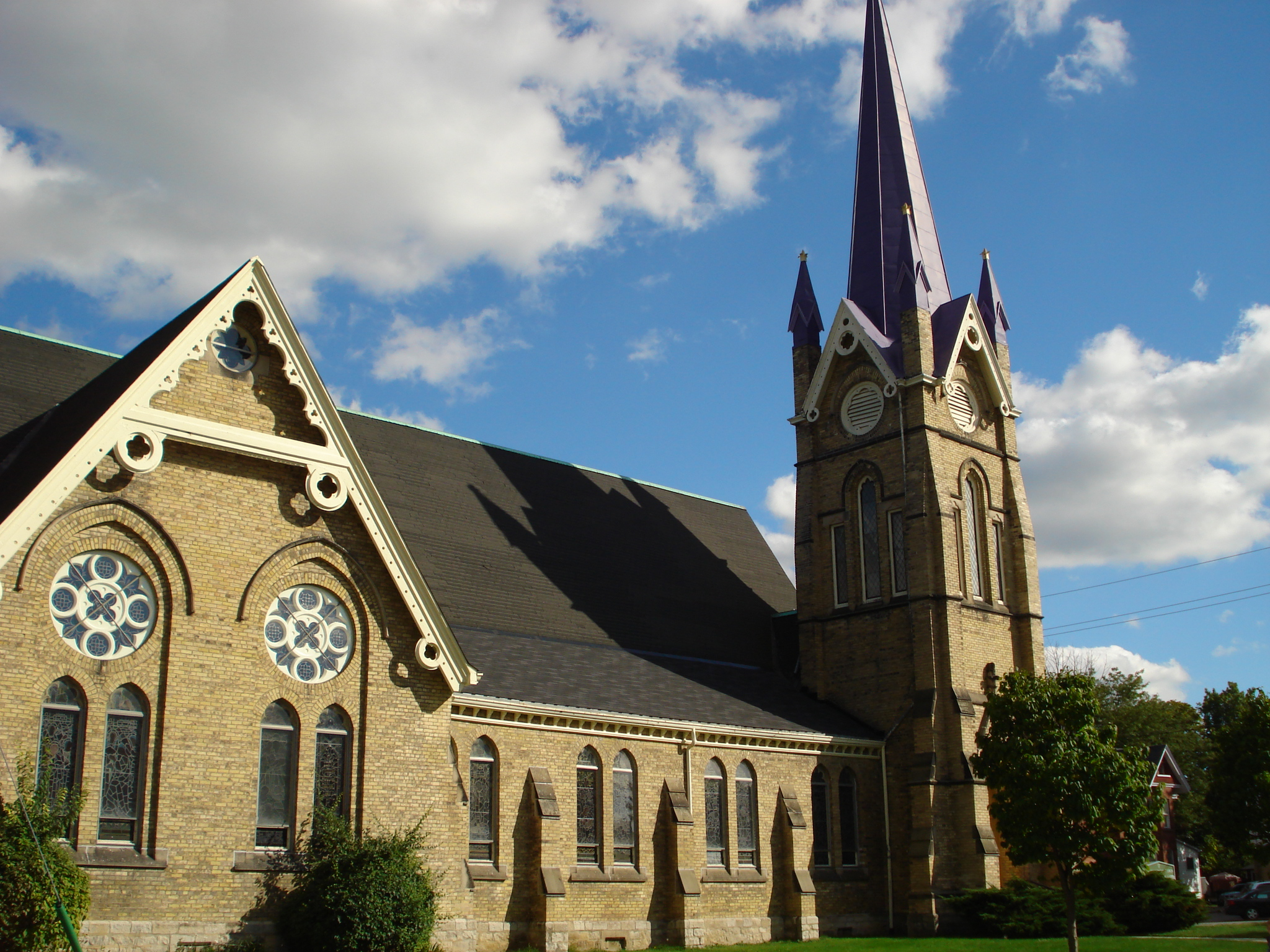 Trinity Episcopical Church in St. Thomas, Ontario, Canada. This church was built to replace the Old St. Thomas Church.